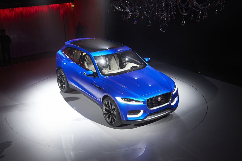 Jaguar’s first ever sports crossover concept vehicle – the C-X17 – makes its debut at Palais Thurn und Taxis, Frankfurt